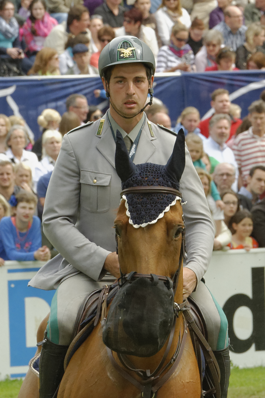 Internationales Pfingstturnier Wiesbaden 2013 The making of this document was supported by the Community-Budget of Wikimedia Germany.